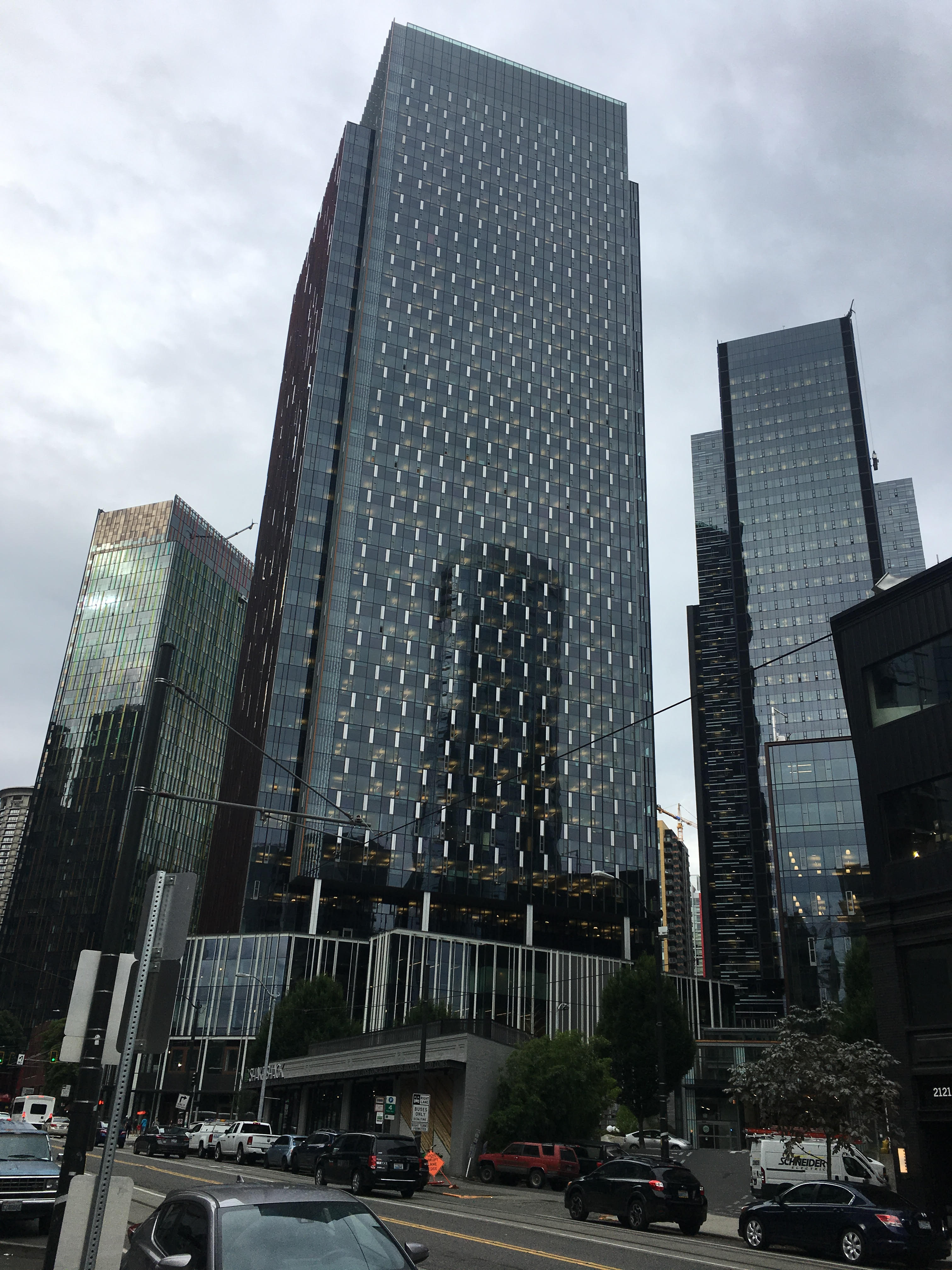 From left to right Doppler, re:Invent, and Day 1 buildings.